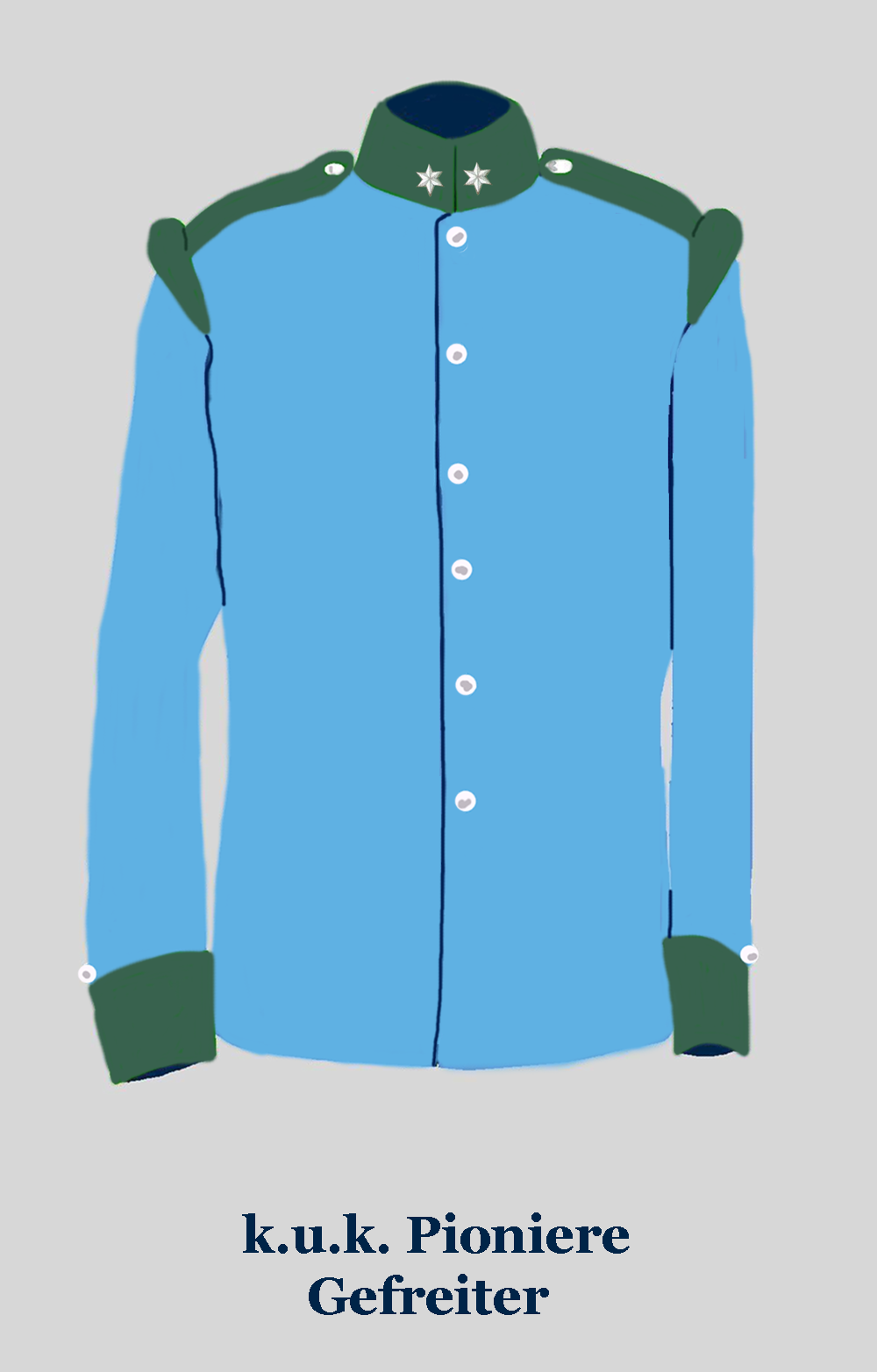 Tunic of an Private 1st class of the k.u.k. Engineers (Austria-Hungary)